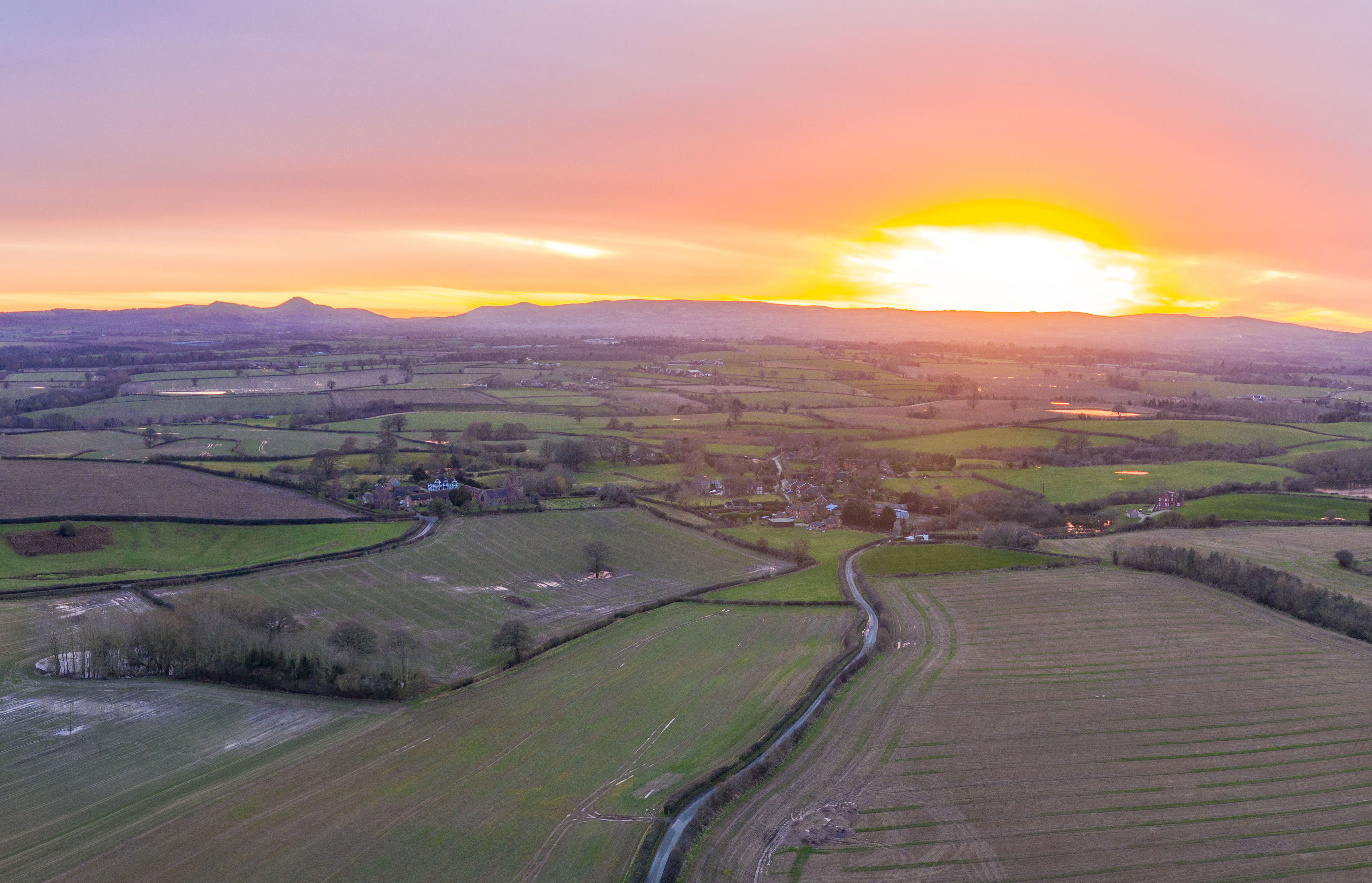 Berrington sunset in January 2020 with the Shropshire hills in the background